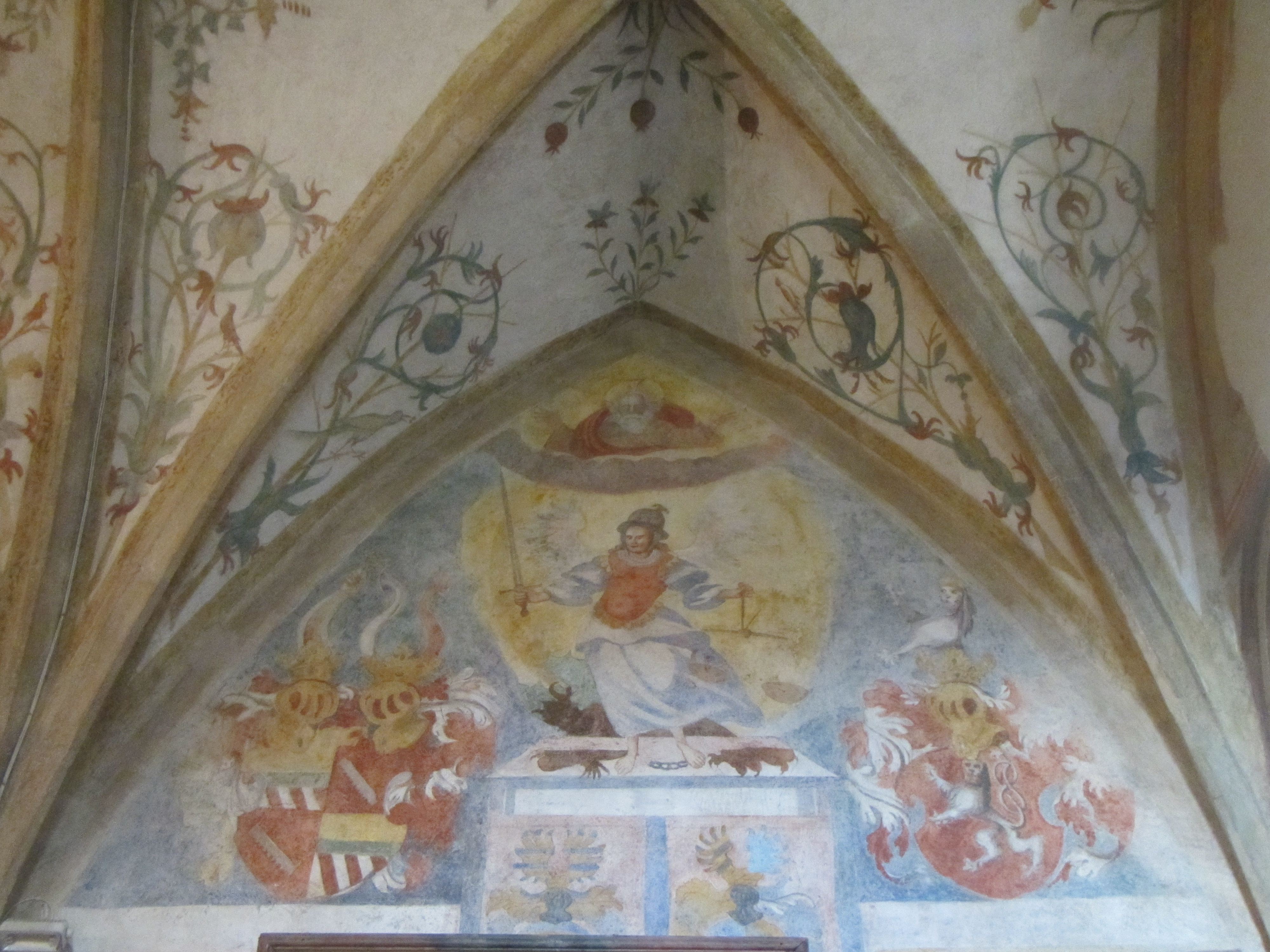 Piazzo, Segonzano - church of the Immaculate - fresco of saint Michael triumphant and coat of arms of the a Prato, Corret and Lodron families above the vestry door - 1600